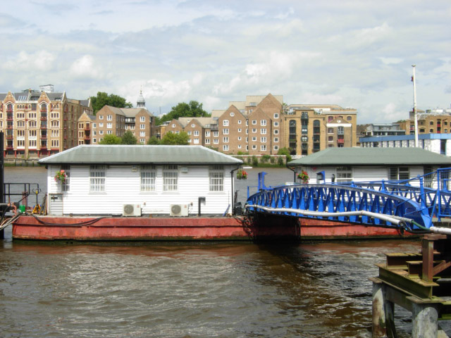 Cherry Garden Pier, Bermondsey The name derives from Stuart times when Rotherhithe's cherry gardens attracted Londoners for recreation. Today the pier is the headquarters of City Cruises plc who operate a fleet of Thames trip boats. View of Wapping from across the Thames.